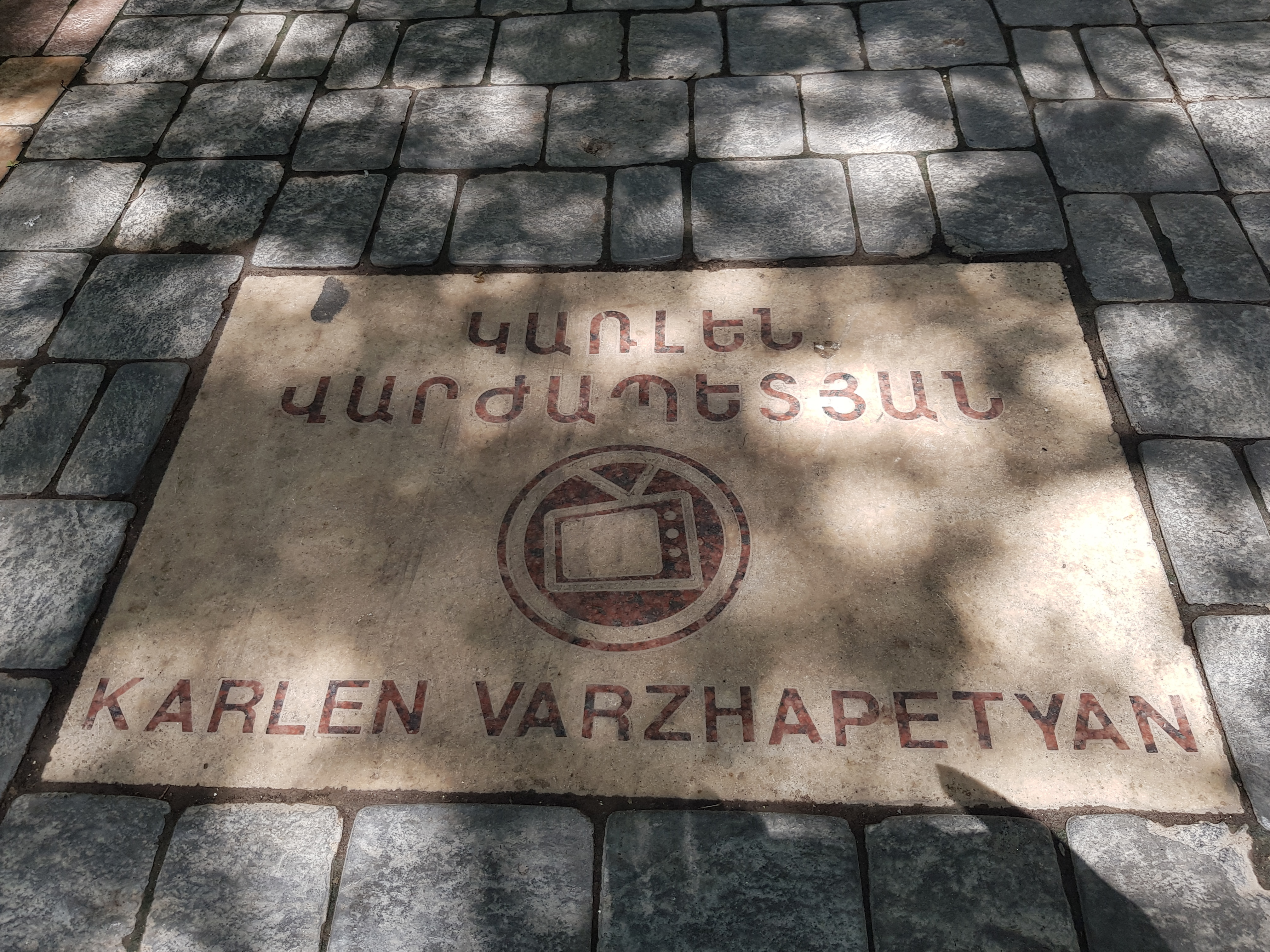 Alley of Devotees, Yerevan